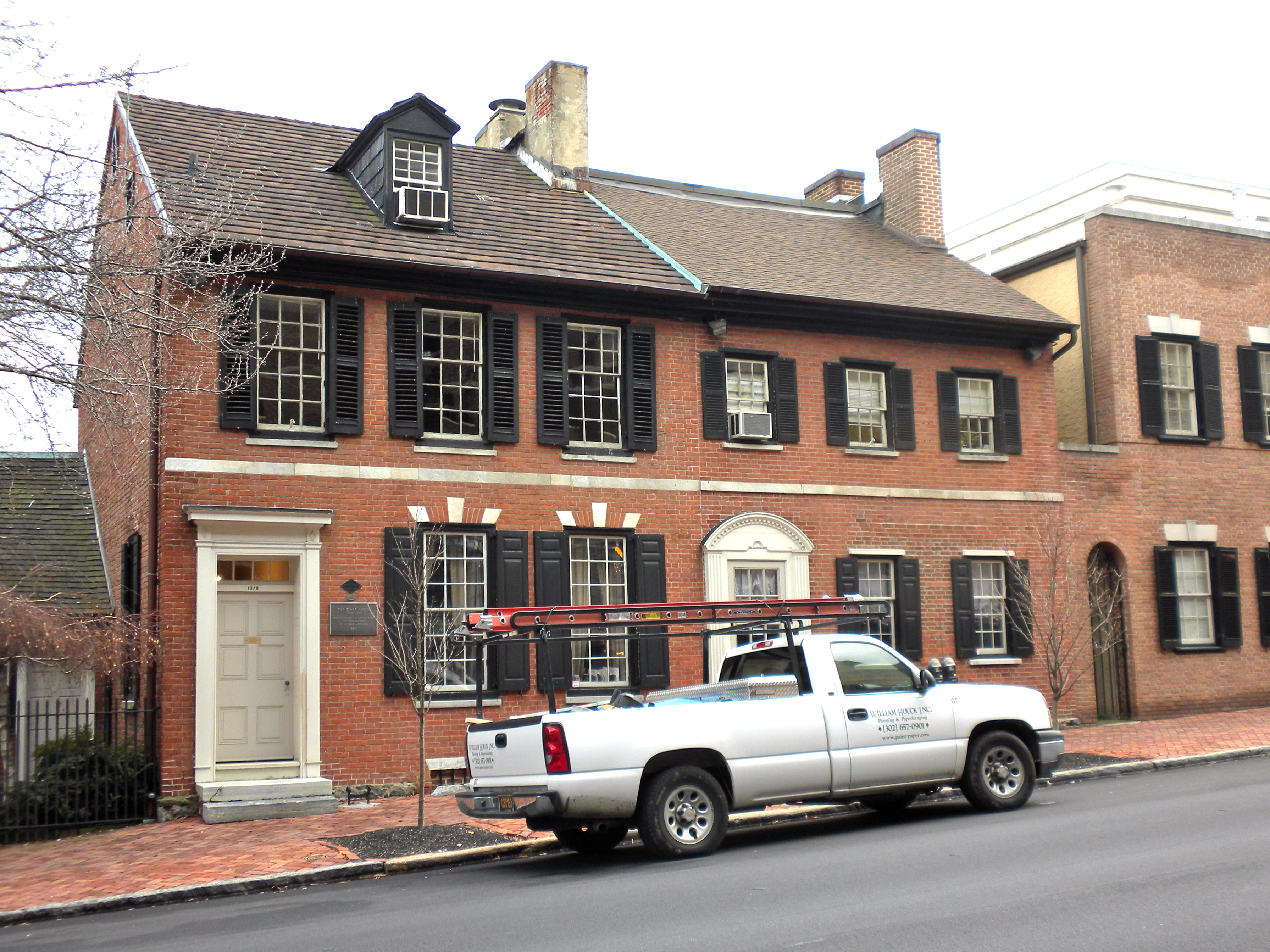 Starr House in Wilmington, Delaware. On NRHP. 1310 King St. just south of the North Market Street Bridge.